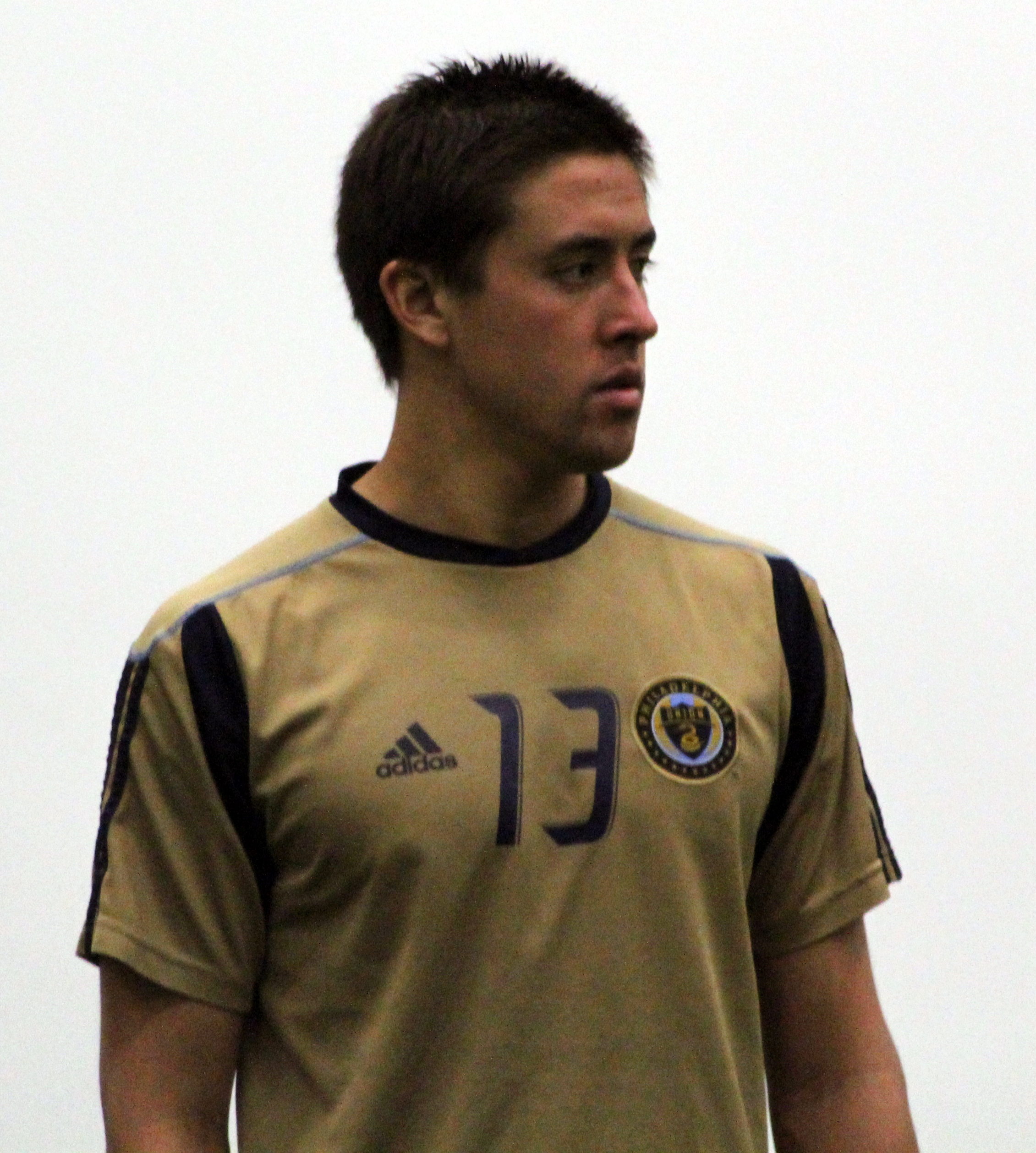 Kyle Nakazawa participating in preseason training, with the Philadelphia Union, at YSC Sports in Wayne. January 25, 2011.